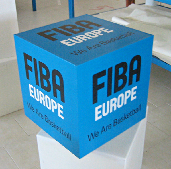 Cube of FIBA Europe